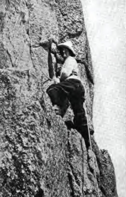 Photograph of female mountain climber, Dora Keen, climbing the "Dent Du Requin" in France, 1910